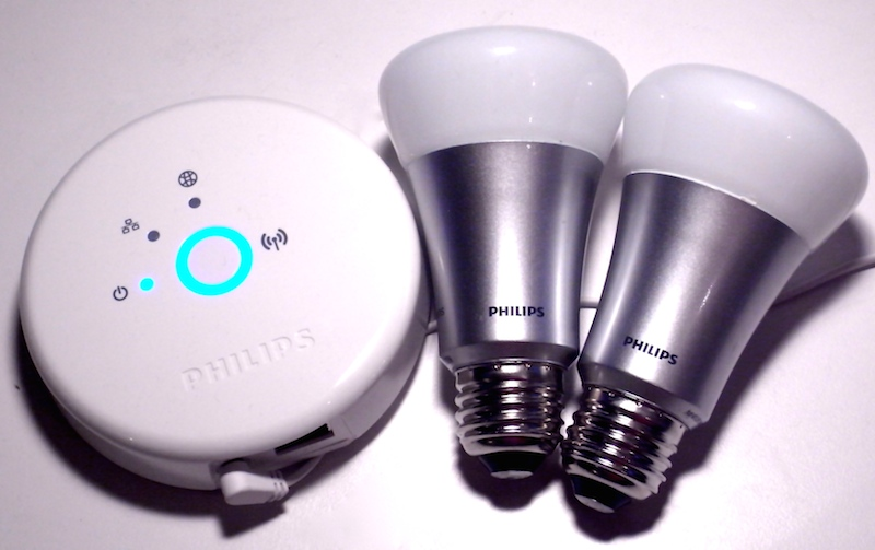 An image of a Philips Hue hub (1st generation) and two color changing bulbs.